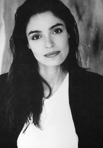 professional photo of Starr Andreeff